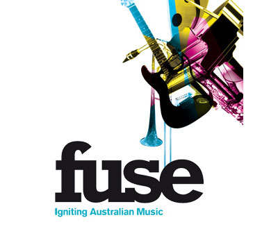 Fuse 2011 logo by Jess Lewis